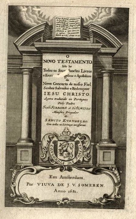 New Testament "João ferreira de Almeida" year: 1681